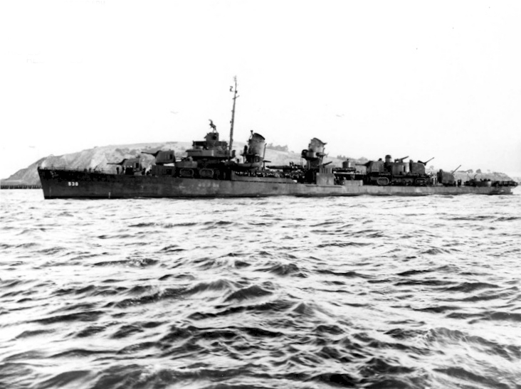 The U.S. Navy destroyer USS Trathen (DD-530) off the Mare Island Naval Shipyard on 4 August 1943. Trathen was in overhaul at the shipyard from 11 July to 4 August 1943.